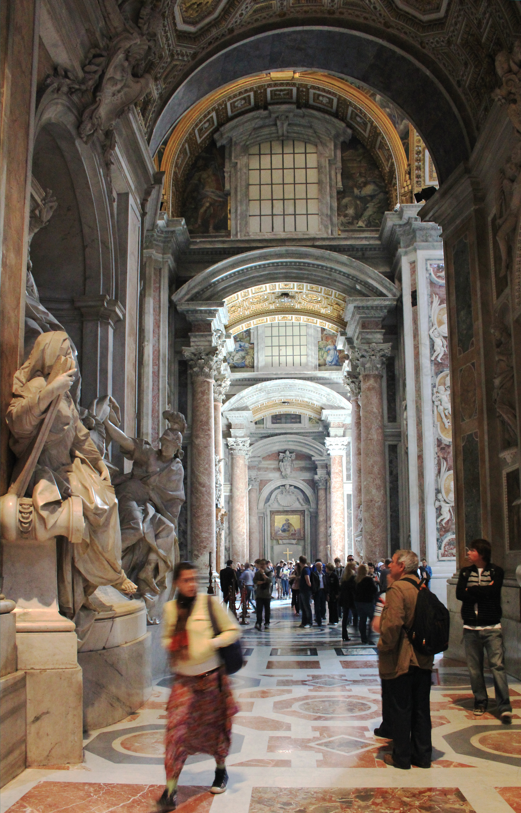 Interior of St. Peter's Basilica in Vatican City, Rome